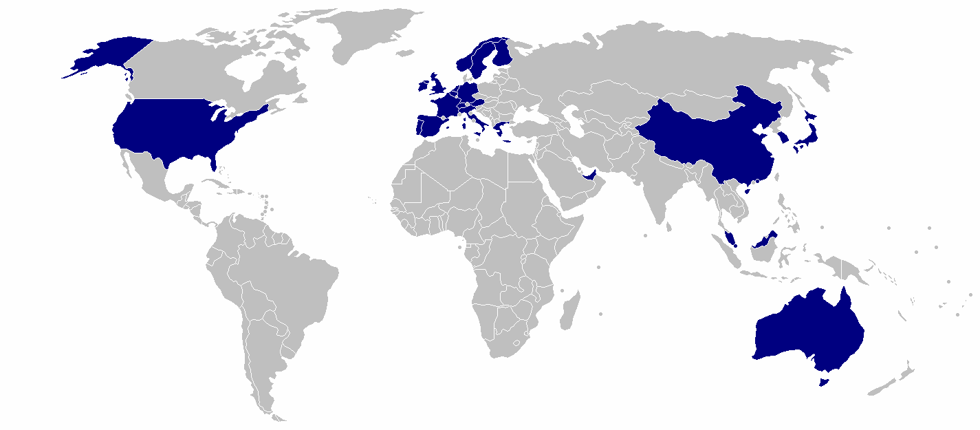 Royal Bank of Scotland global locations